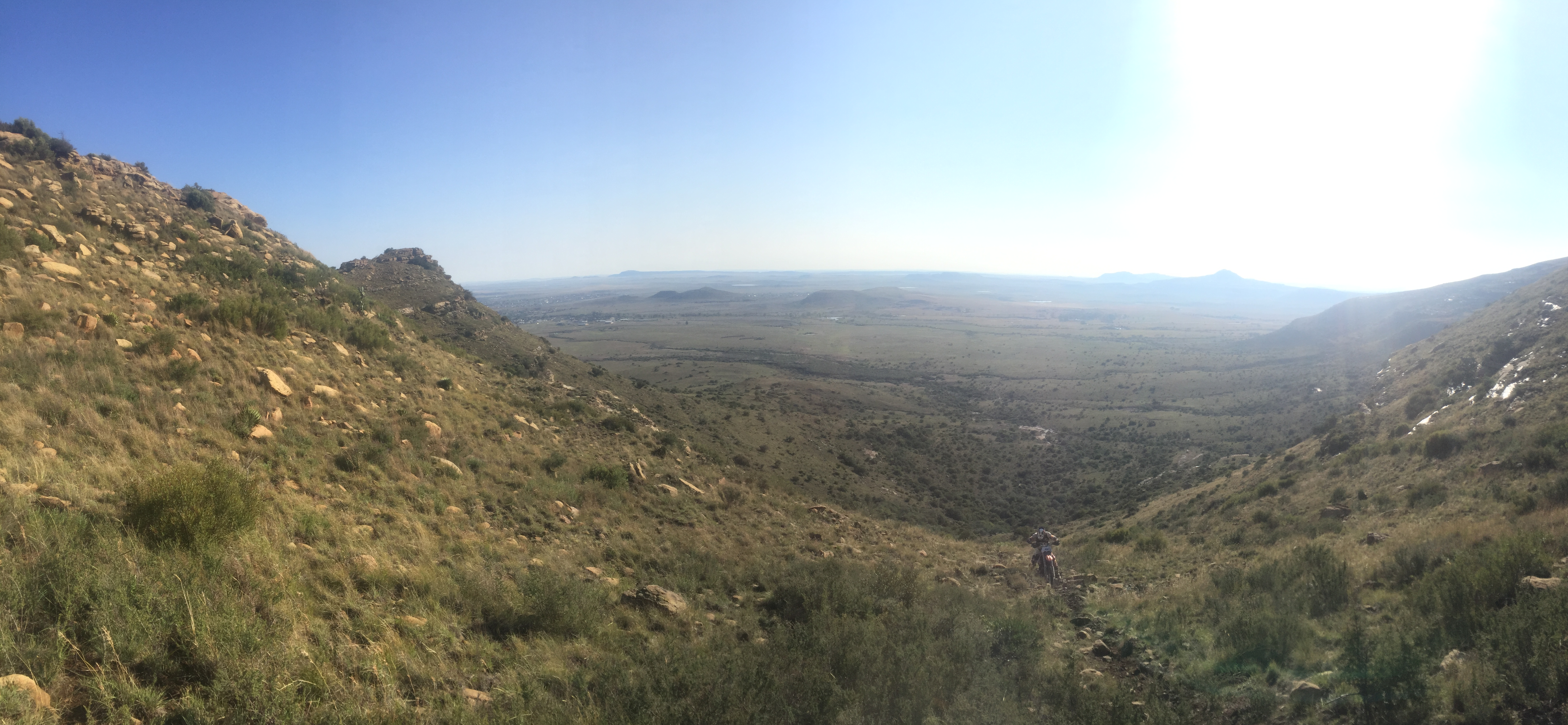 Thaba Nchu Rural, Thaba Nchu, 9780, South Africa